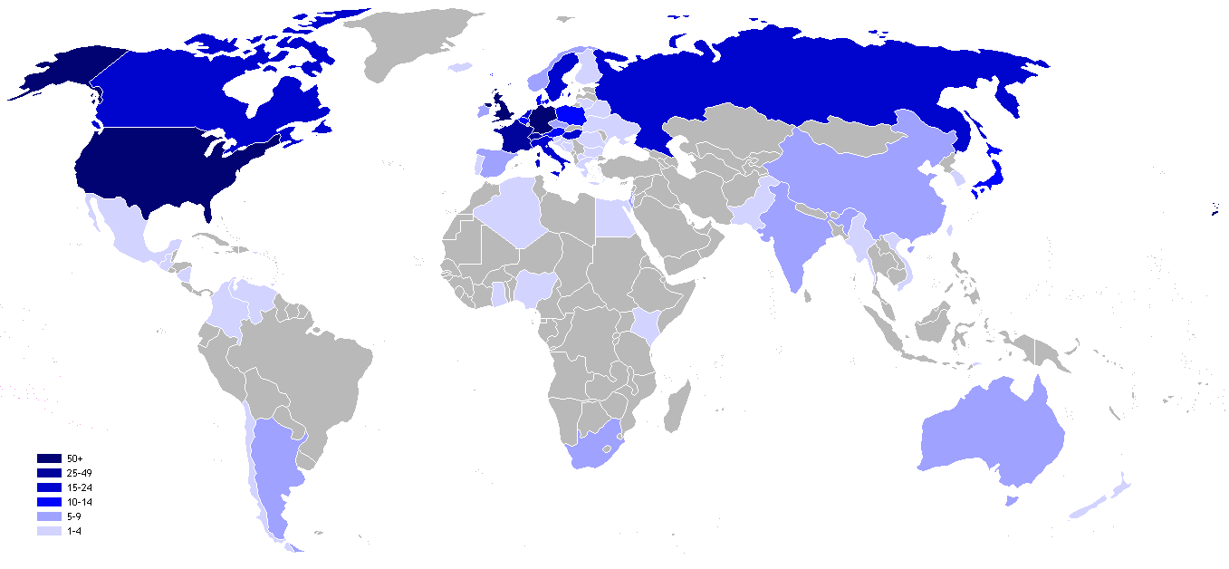 A map of countries shaded by how many nobel laureates are attributed to them.